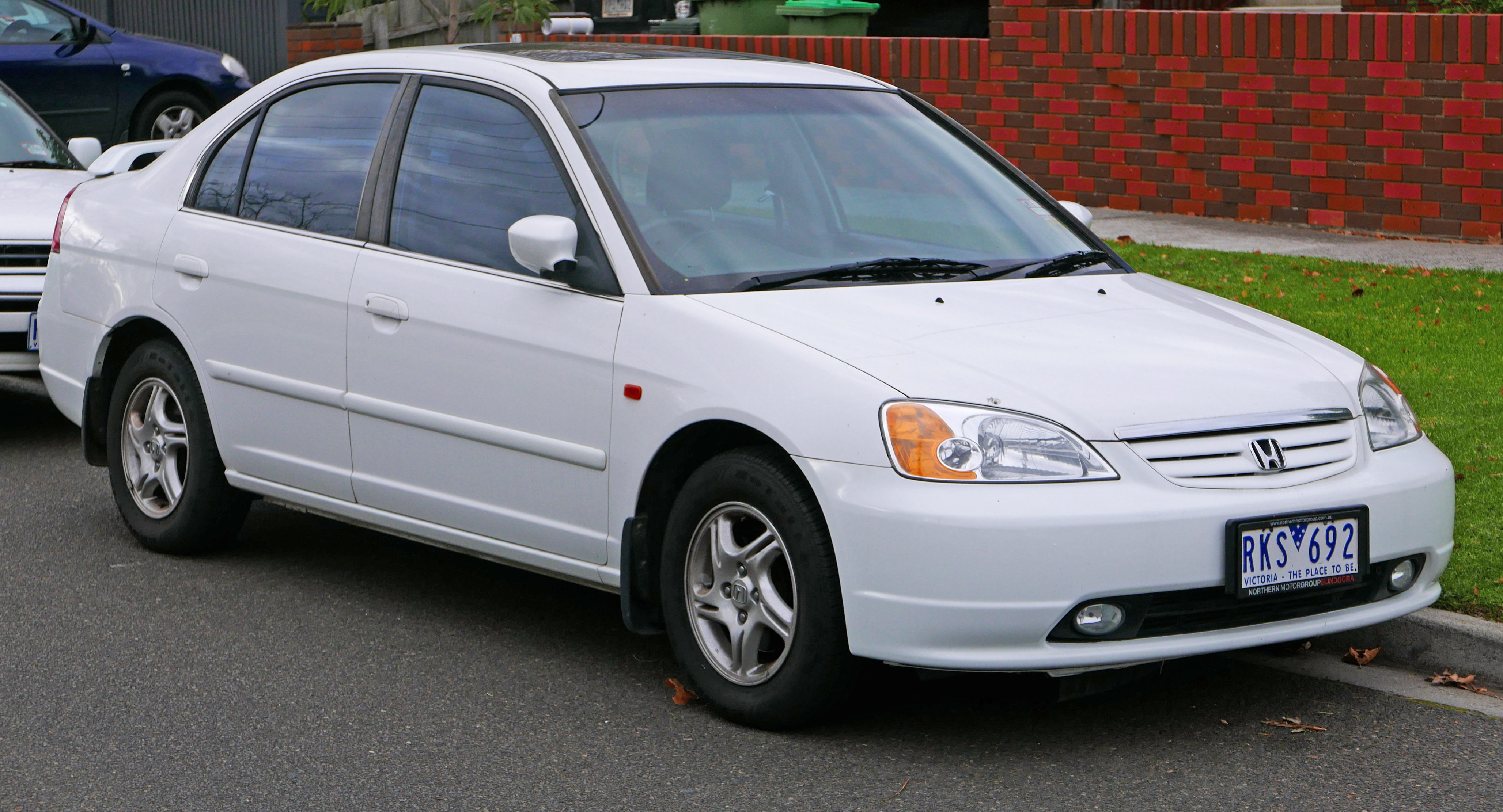 2002 Honda Civic (MY02) GLi sedan. Photographed in Fairfield, Victoria, Australia. Vehicle registration enquiry results Jurisdiction Victoria Registration RKS692 Chassis code MRHES16502P040187 Engine code D17Z12910247 Compliance date 2002-01 Year of manufacture 2001 (not a typo)